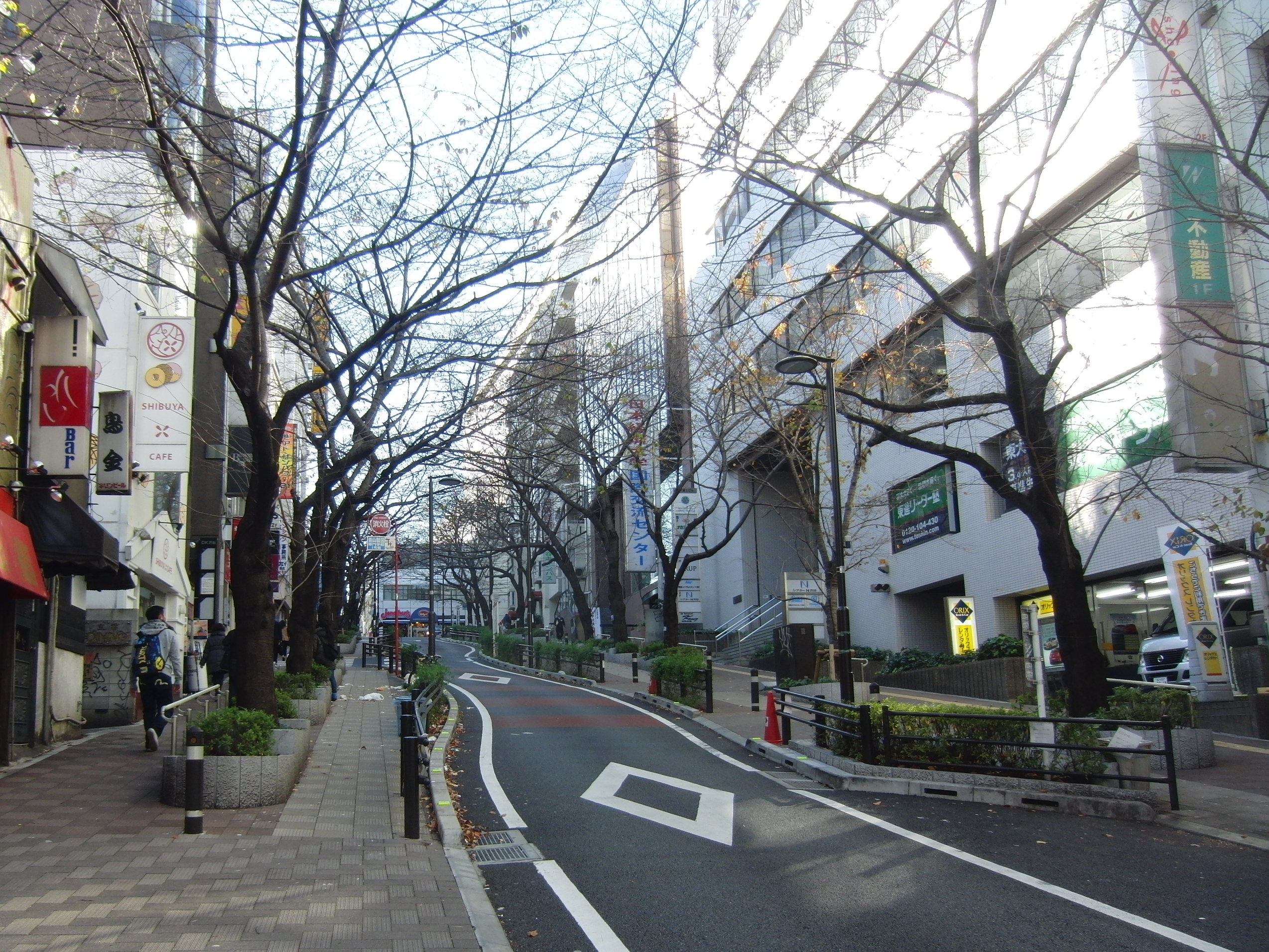 16 Sakuragaoka-cho, Shibuya, Tokyo, Japan.